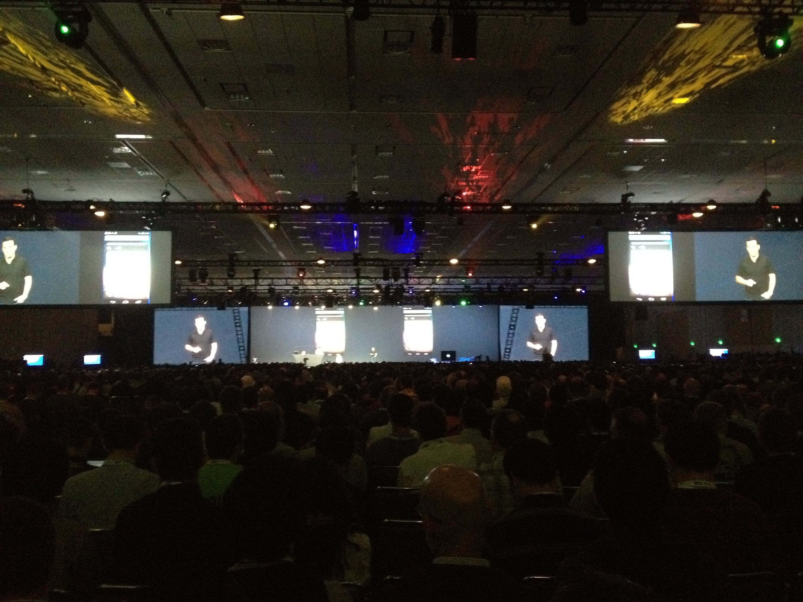 Google I/O 2012 keynote presentation of day one. Unveiling of Nexus 7, Nexus Q and Android 4.1 Jelly Bean.